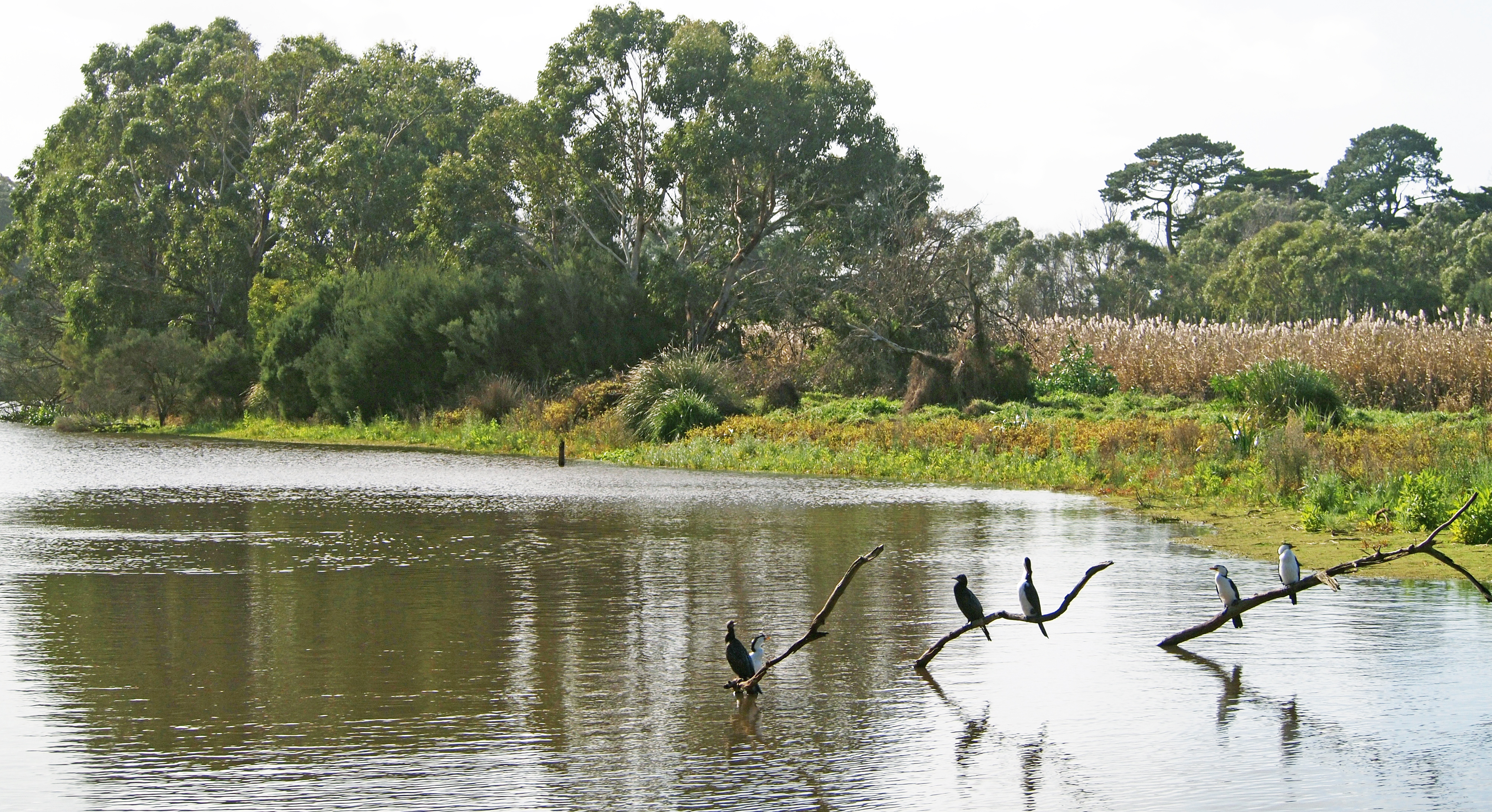 Little pied cormorants (Microcarbo melanoleucos) perched at Coolart Wetlands and Homestead Reserve